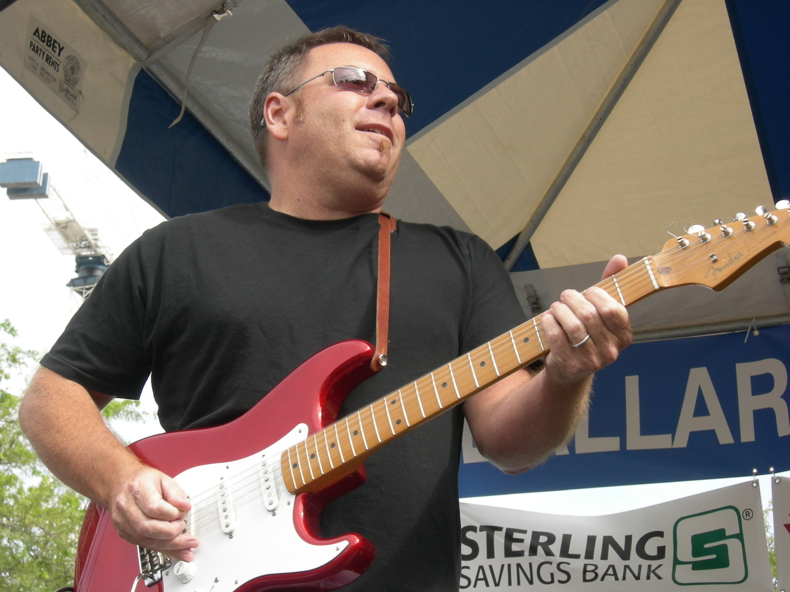 Jim Sangster of the Young Fresh Fellows performing with the Christy McWilson Band at the Ballard Seafood Fest, Ballard, Seattle, Washington.